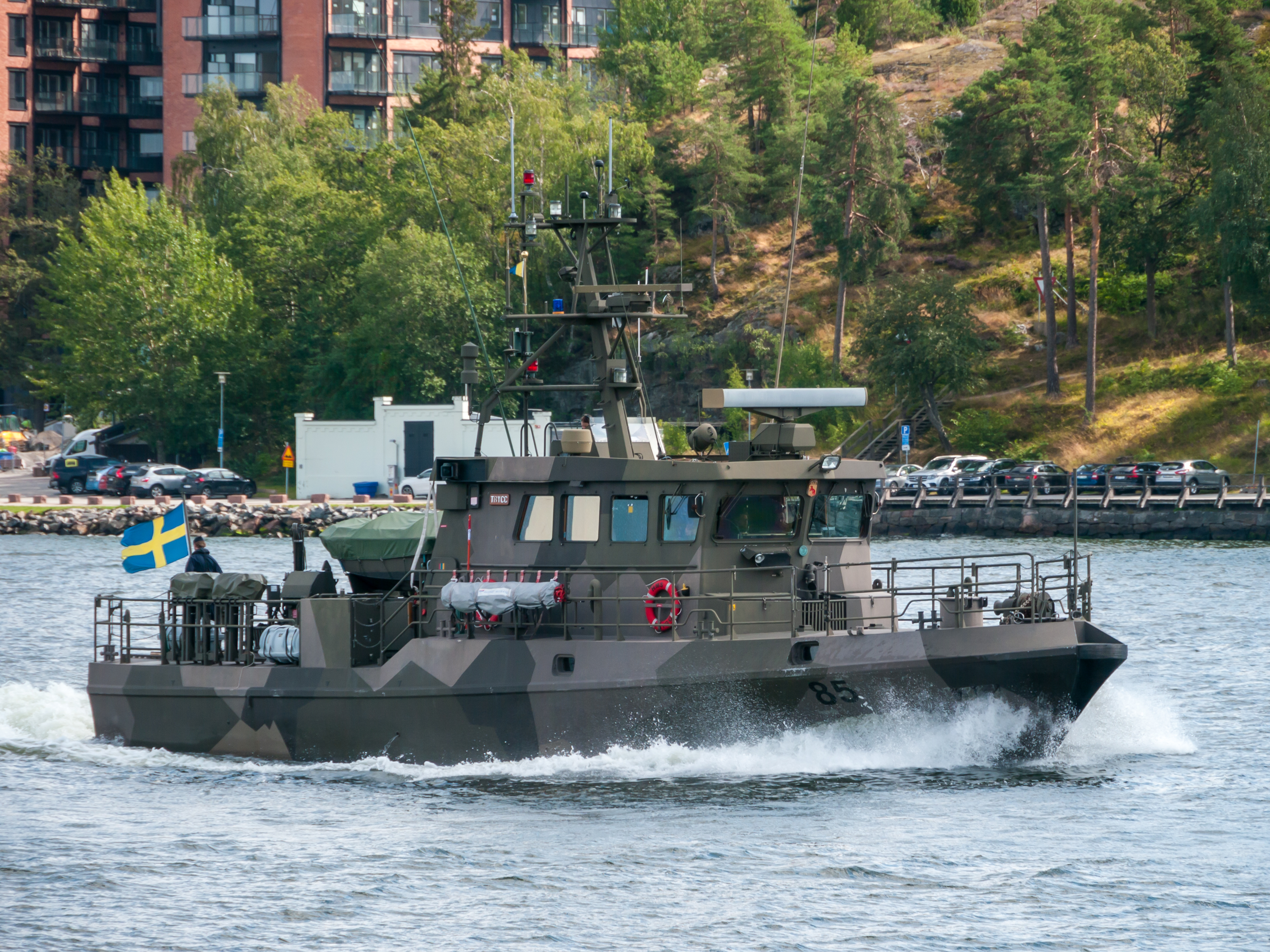 HMS Trygg (85) in Stockholm